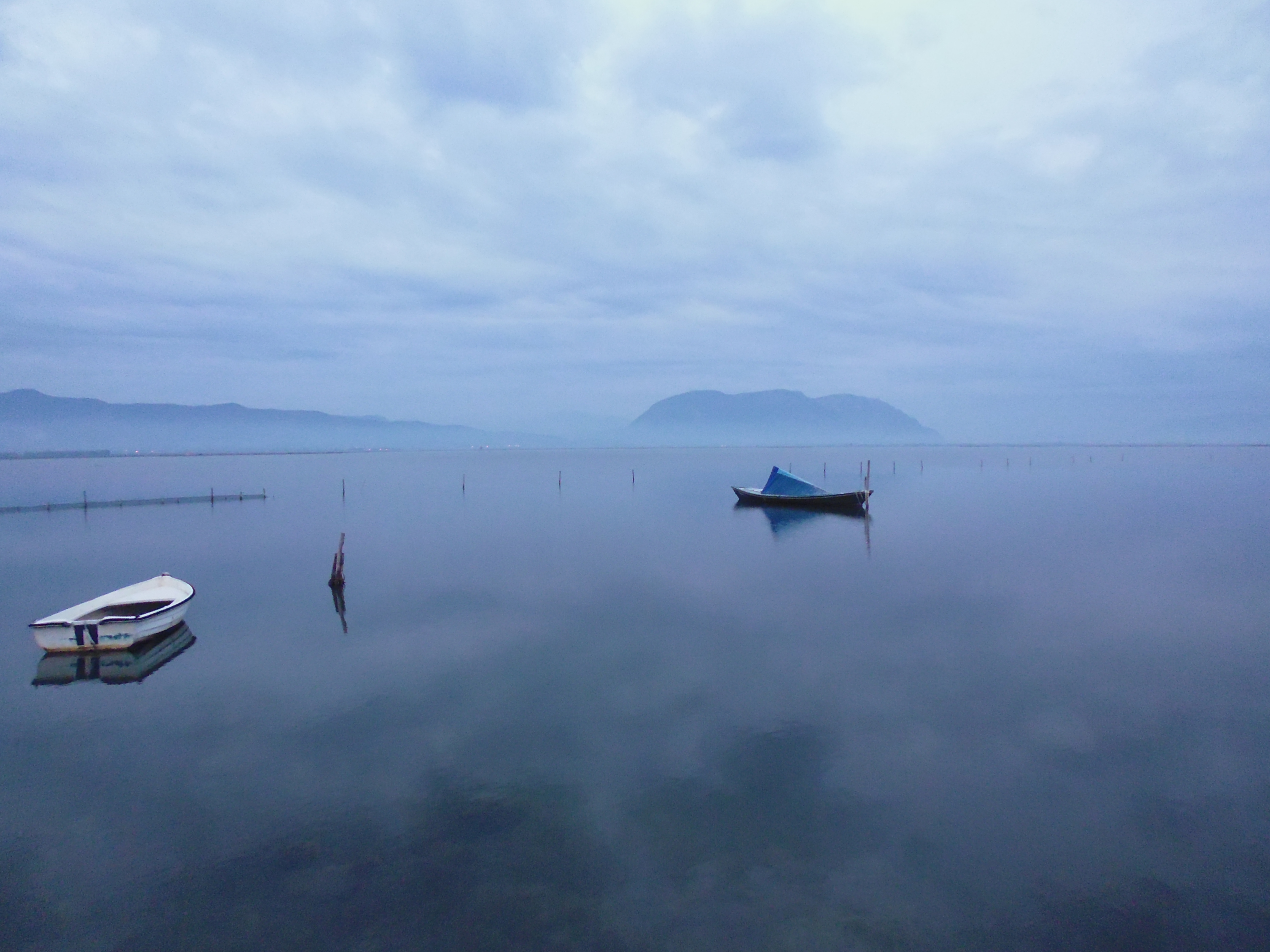 Boats, Messolongi lagoon This is a photography of Natura 2000 protected area with ID GR2310001